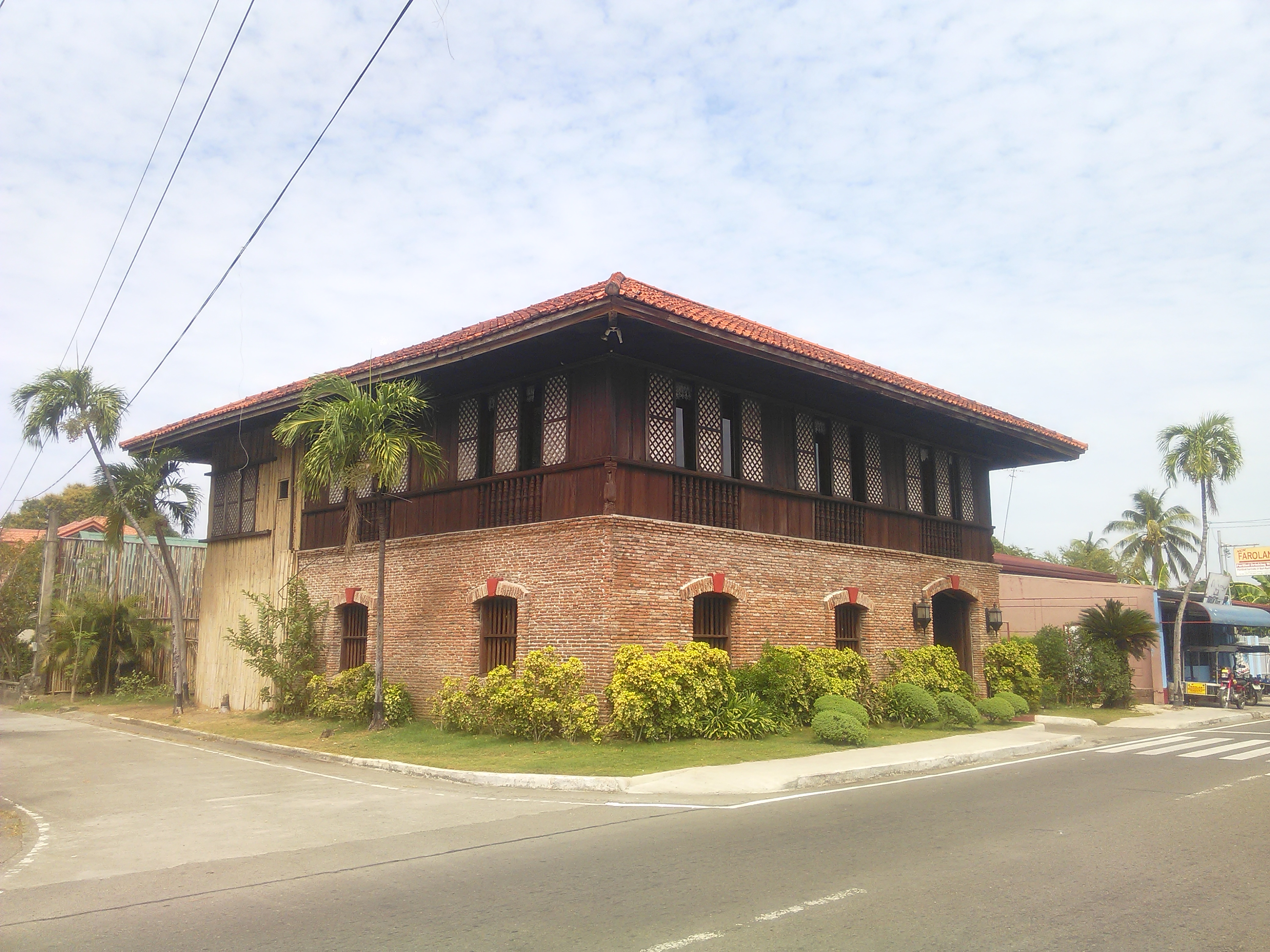 Edralin House, Sarrat, Ilocos Norte